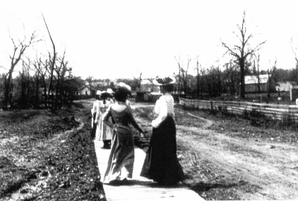 Students strolling along the boardwalk that led from the Cherokee Seminary for Women into Tahlegnoh.